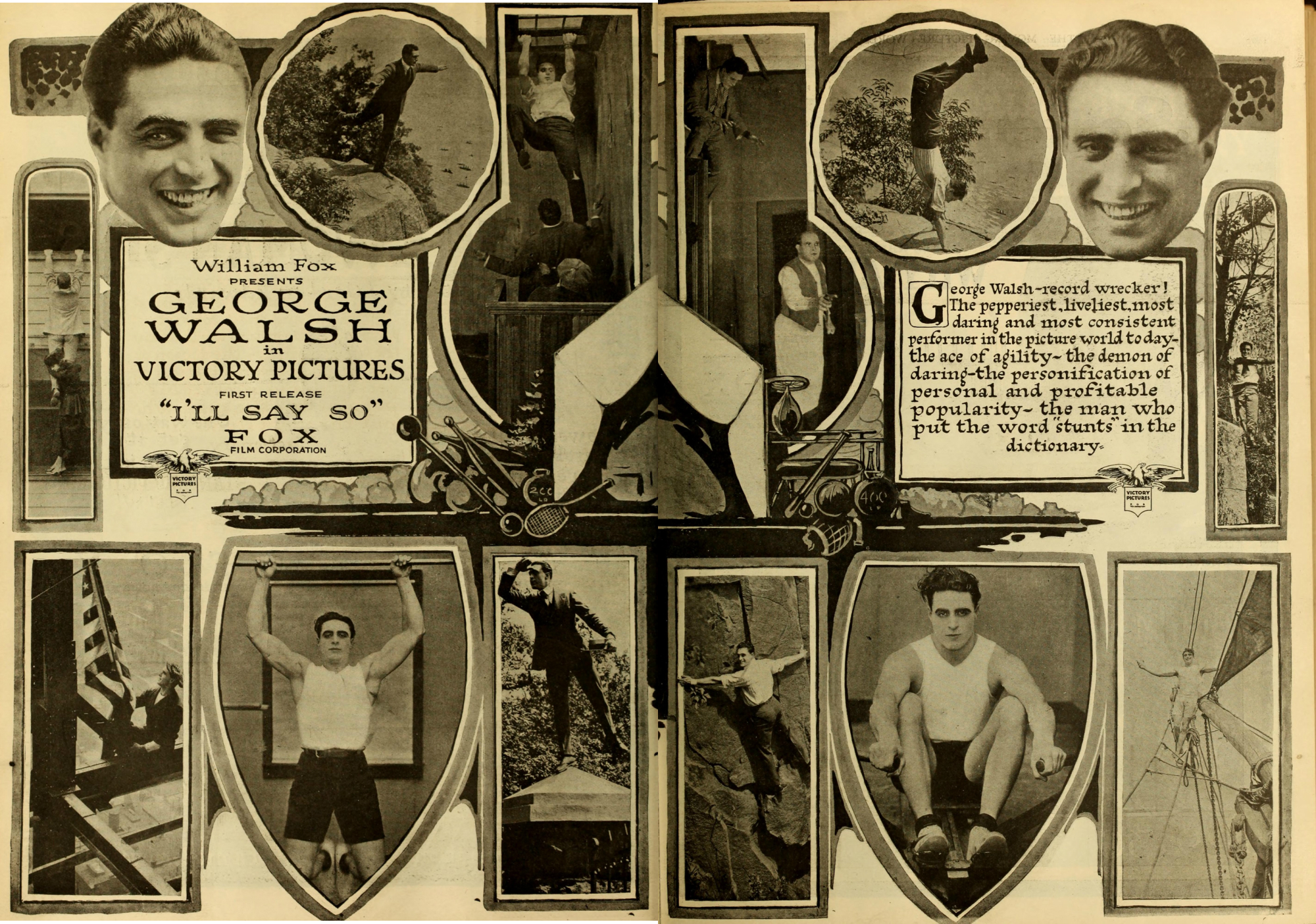 The Moving Picture World, Sep. 7, 1918